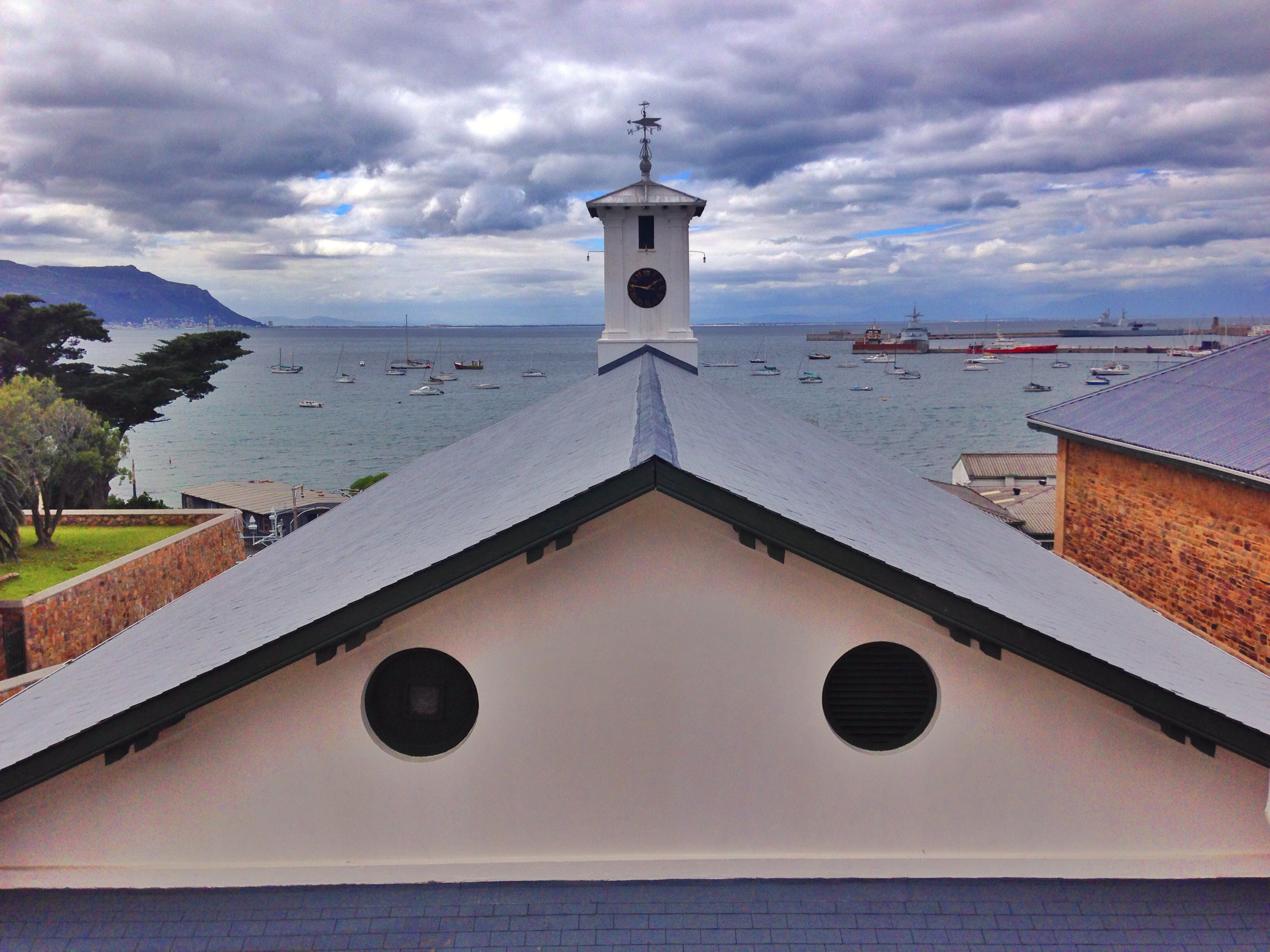 SA Naval Museum, West Dockyard, Simonstown This media shows a South African Protected Site with SAHRA file reference 9/2/081/0046.